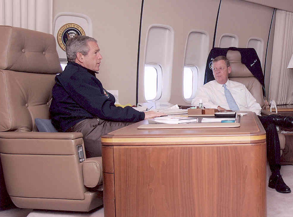 George W. Bush and U.S. Senator Johnny Isakson aboard Air Force One